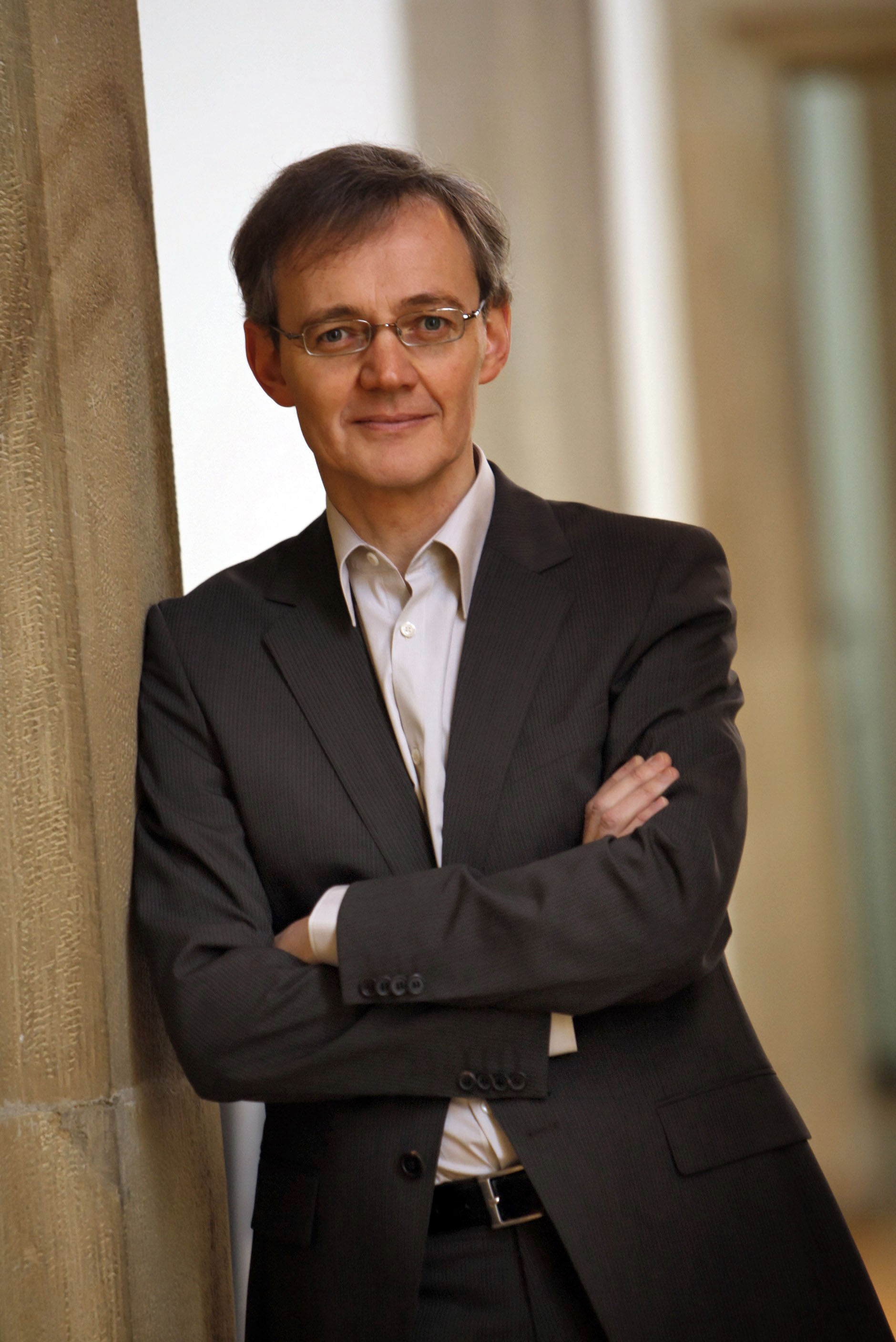 Portrait of Kay Johannsen, the conductor and leader of the Stuttgarter Kantorei.